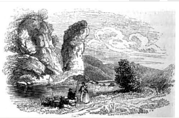 Rock at the end of Dovedale from Thomas Christopher Hofland's fishing book p.310